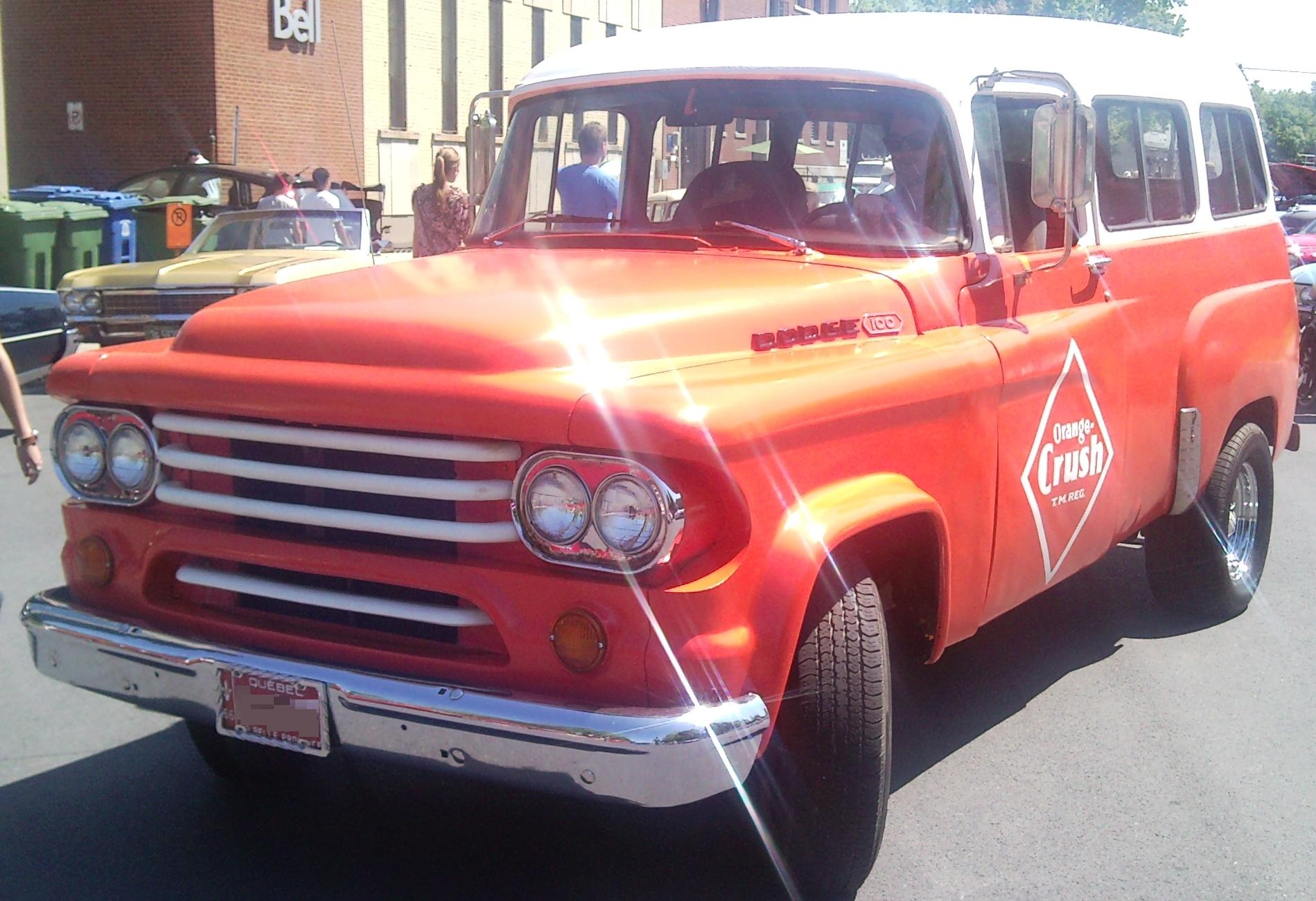 1966 Dodge D-Series Orange Crush photographed in St. Lambert, Quebec, Canada at Auto classique VAQ St-Lambert 2012.